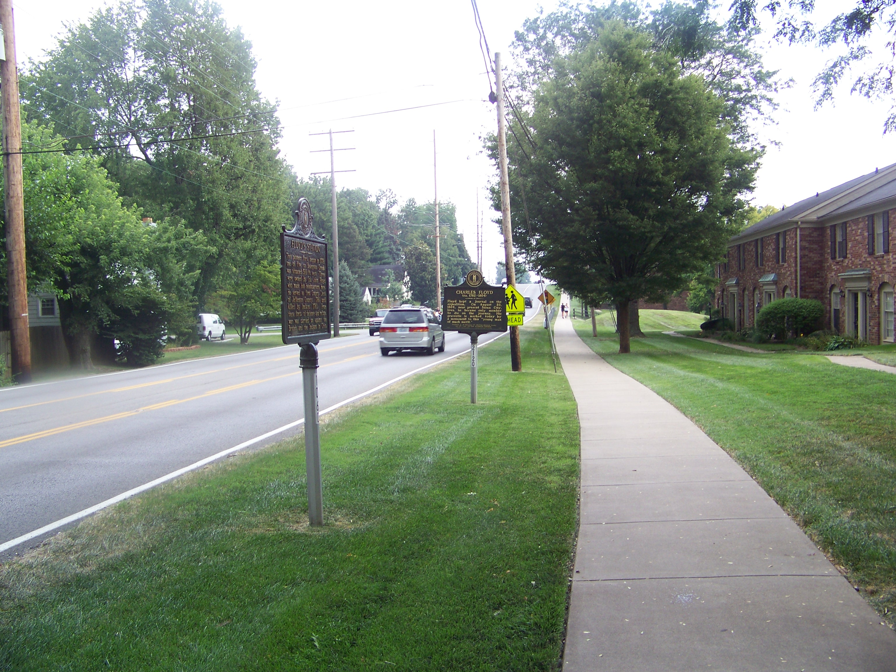 MARKER SIGN PIC - TAKEN BY ME...PUBLIC AREA